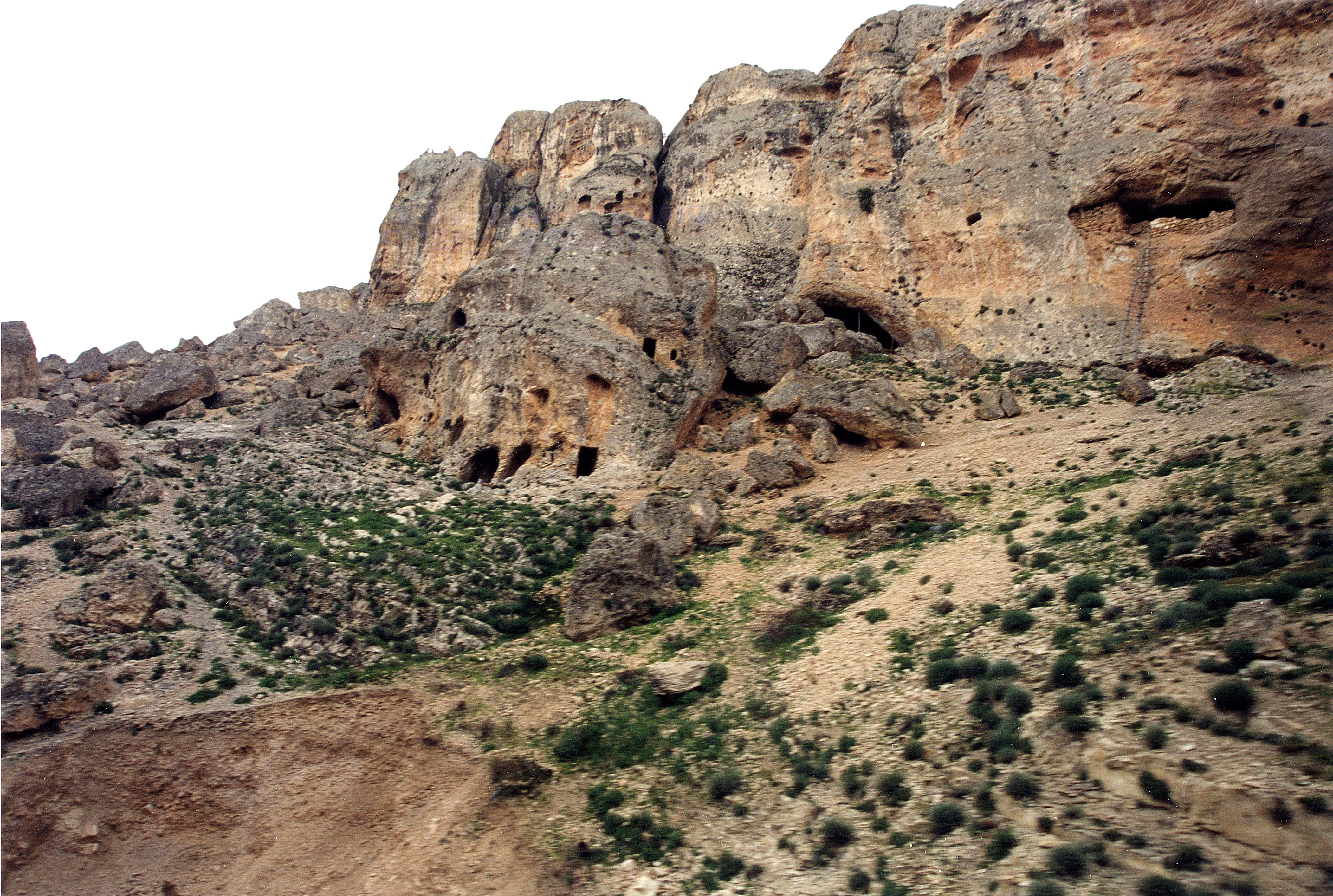 View of the caves looking toward the St.Tecla cut, Maalula in 2002